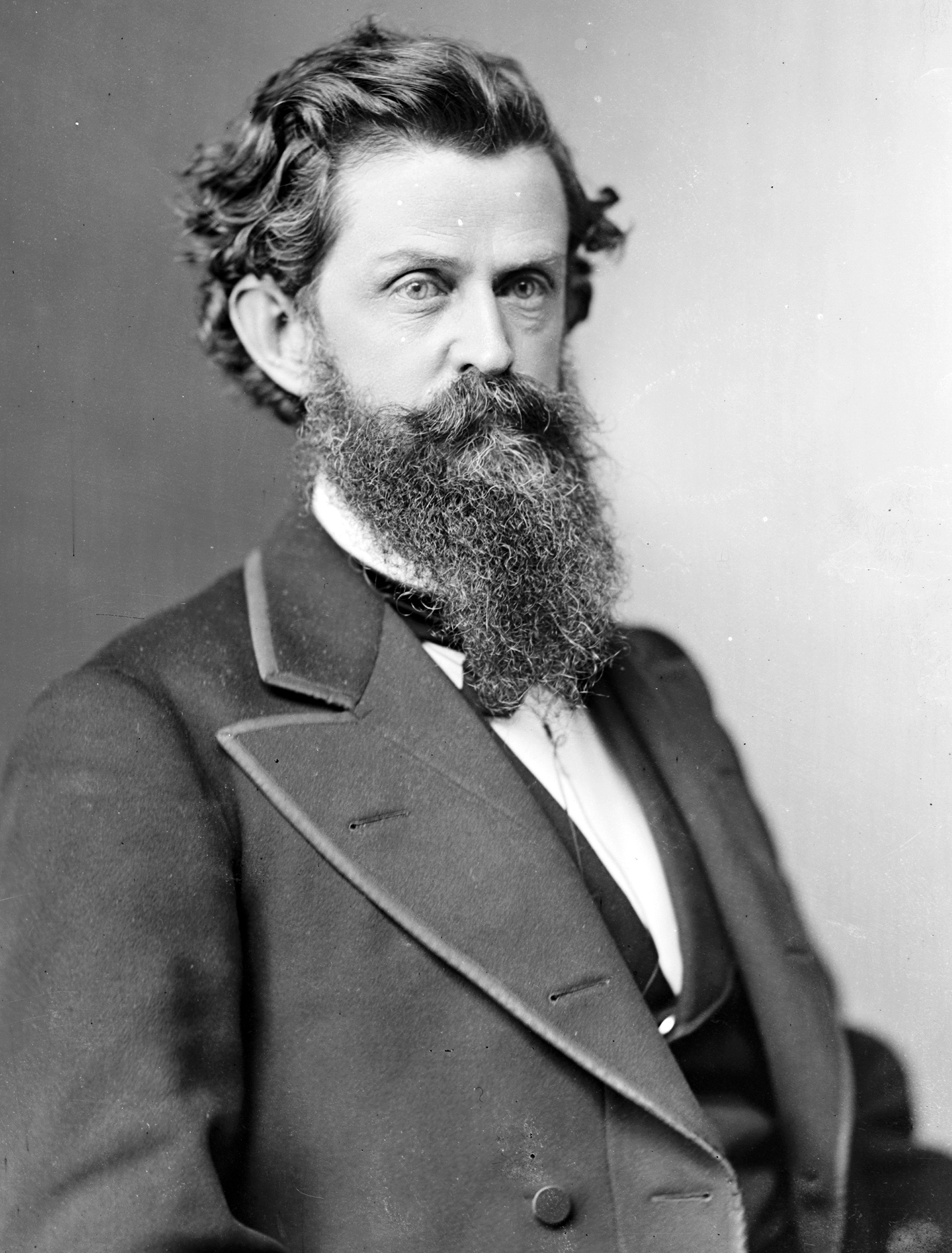 Henry R. Harris, US Representative from Georgia